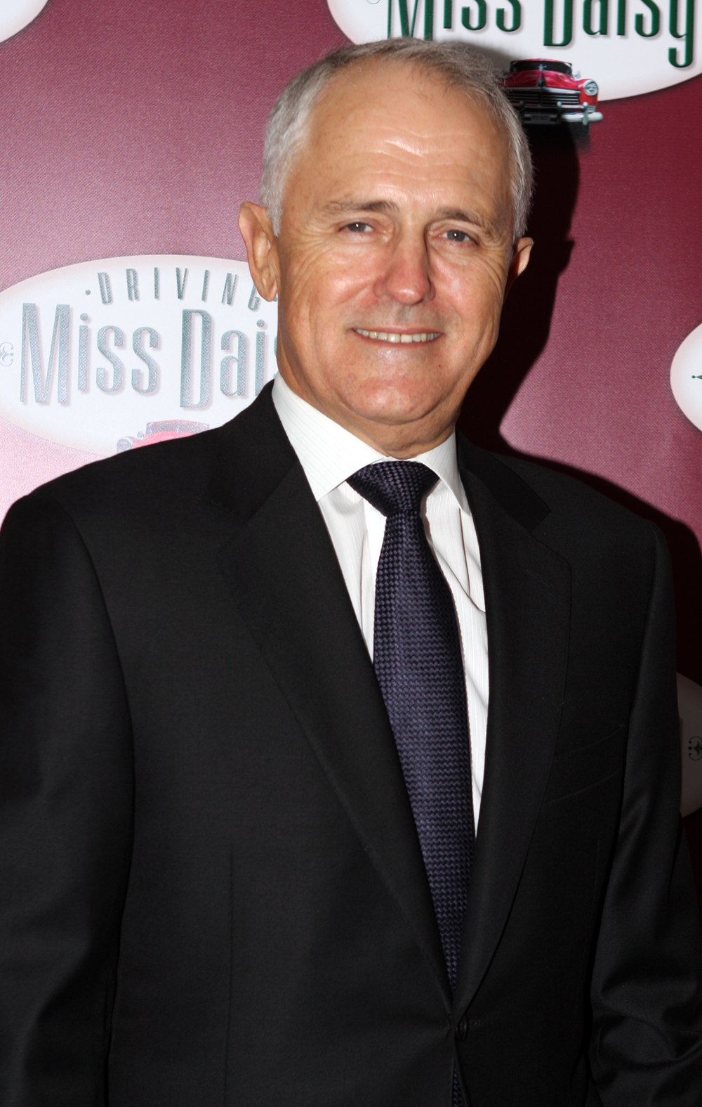 Australian politician Malcolm Turnbull at the opening night of Driving Miss Daisy in the Theatre Royal, Sydney.